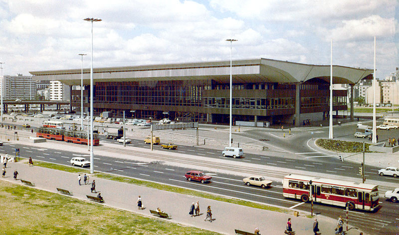 Warsaw Central (Warszawa Centralna) railway station in Poland. Station is full accessible to disabled (and people with heavy luggage) by automatic doors and elevators. Inside also escalators in white marble interiors.